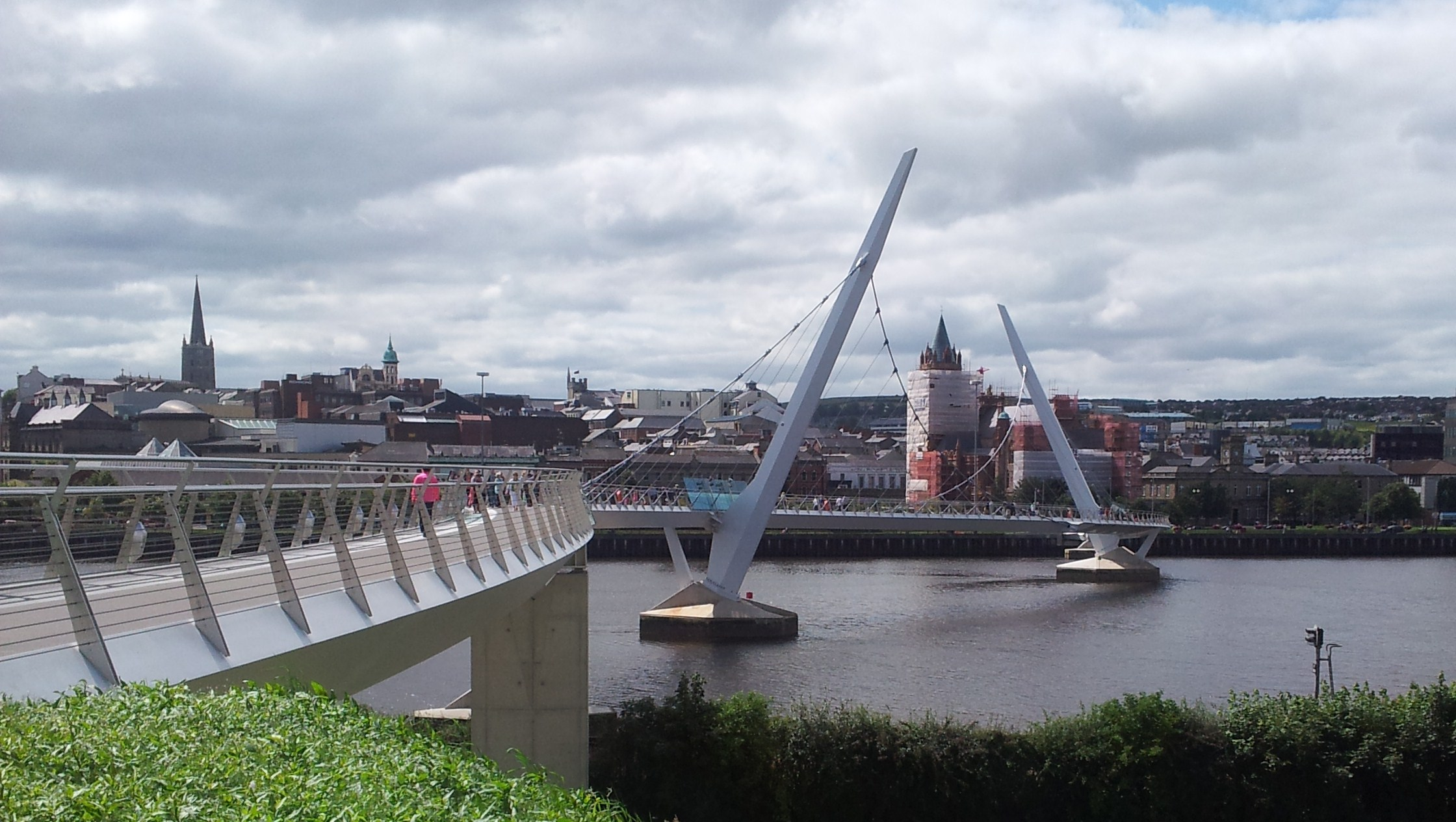 The Peace Bridge across the River Foyle in Derry, County Londonderry, Northern Ireland